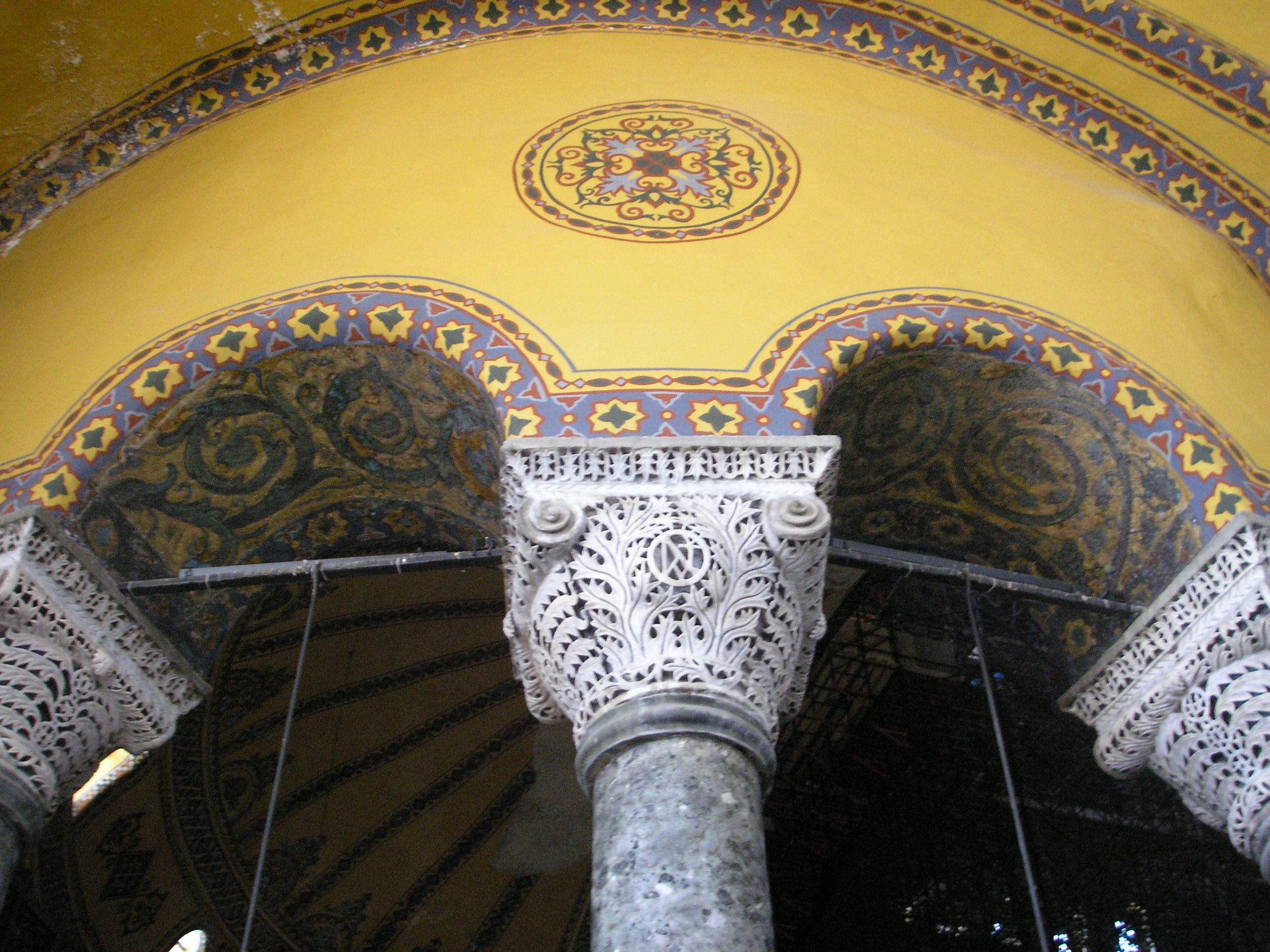 Byzantine pillar in the upper enclosure of the Hagia Sophia.